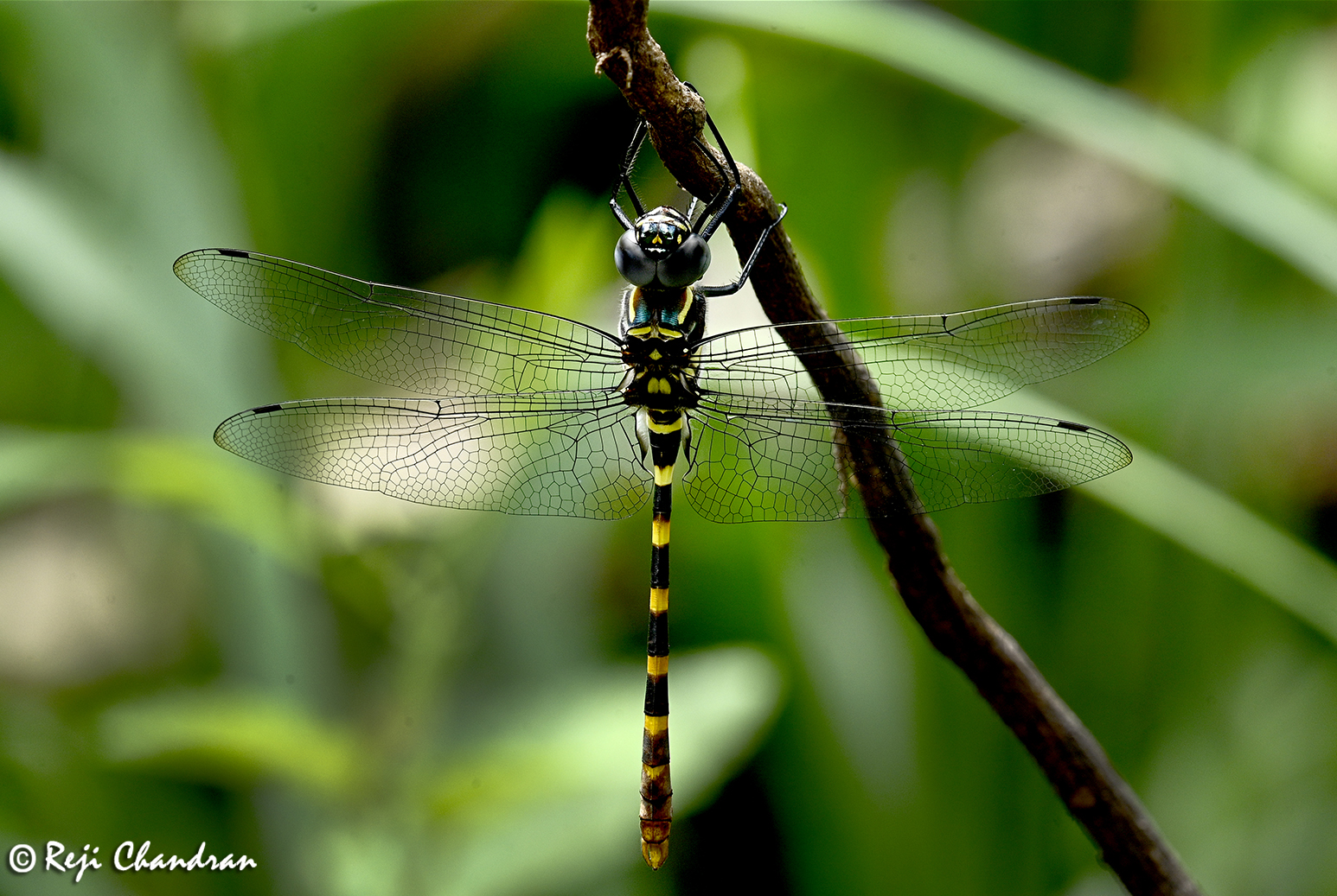 Male